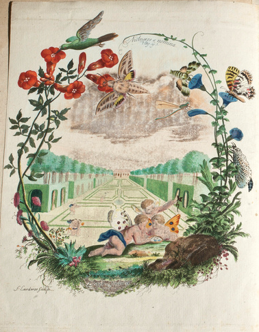 Book frontispiece of Denis & Schiffermüllers Systematisches Verzeichniß der Schmetterlinge der Wienergegend, herausgegeben von einigen Lehrern am k. k. Theresianum, 1776